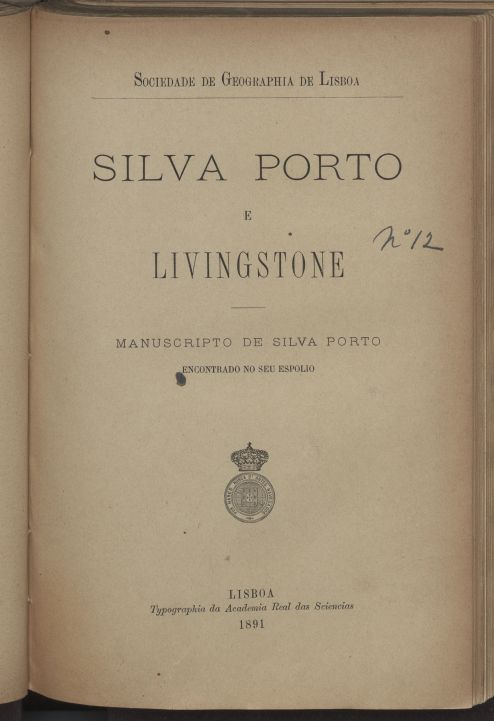 Title page of "Silva Porto and Livingstone : Silva Porto manuscript found in his assets"